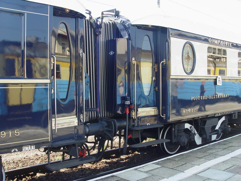 Train Orient Express (Poland 2007)